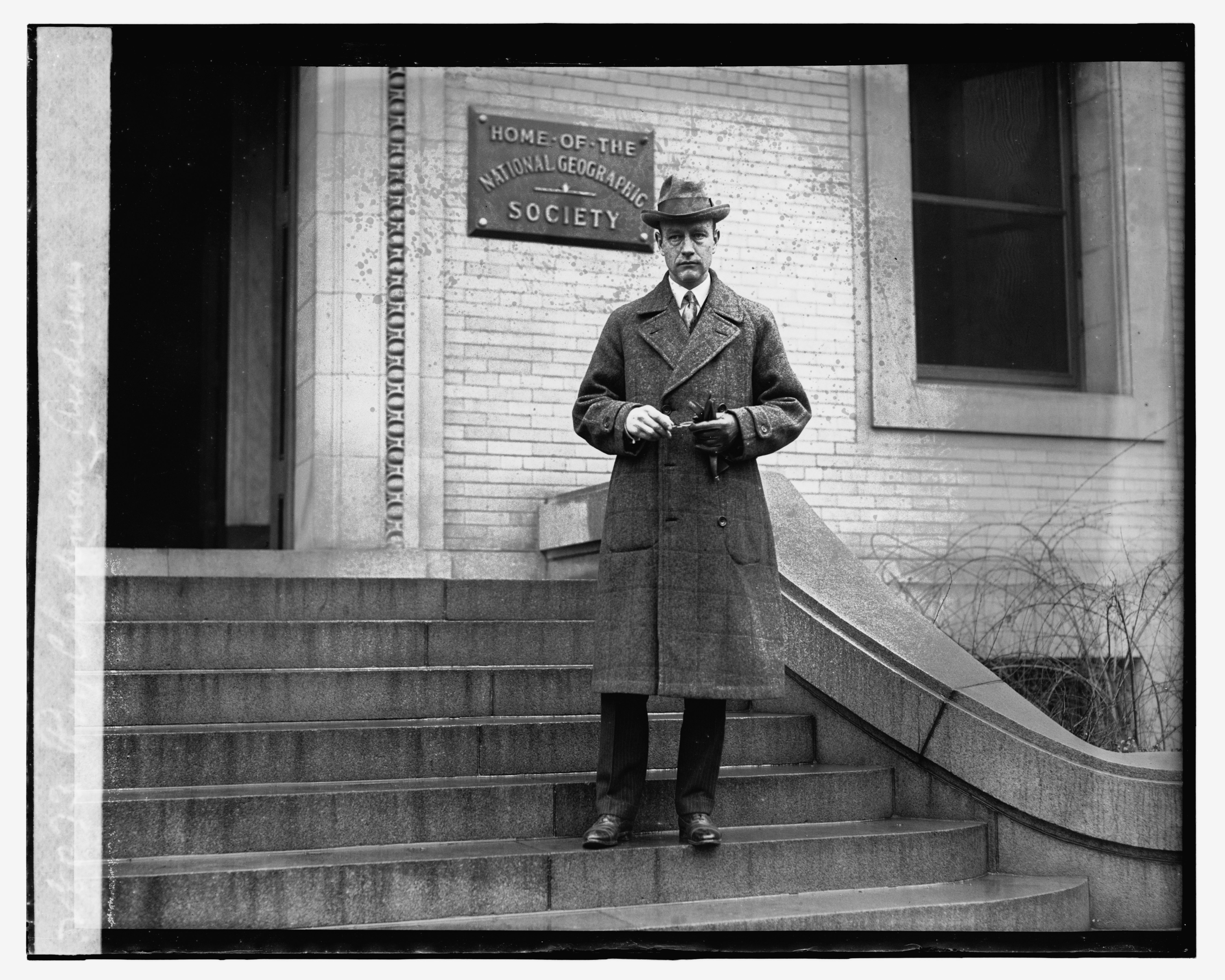 Title: Roy Chapman Andrews, [12/22/23] Abstract/medium: National Photo Company Collection (Library of Congress) Physical description: 1 negative